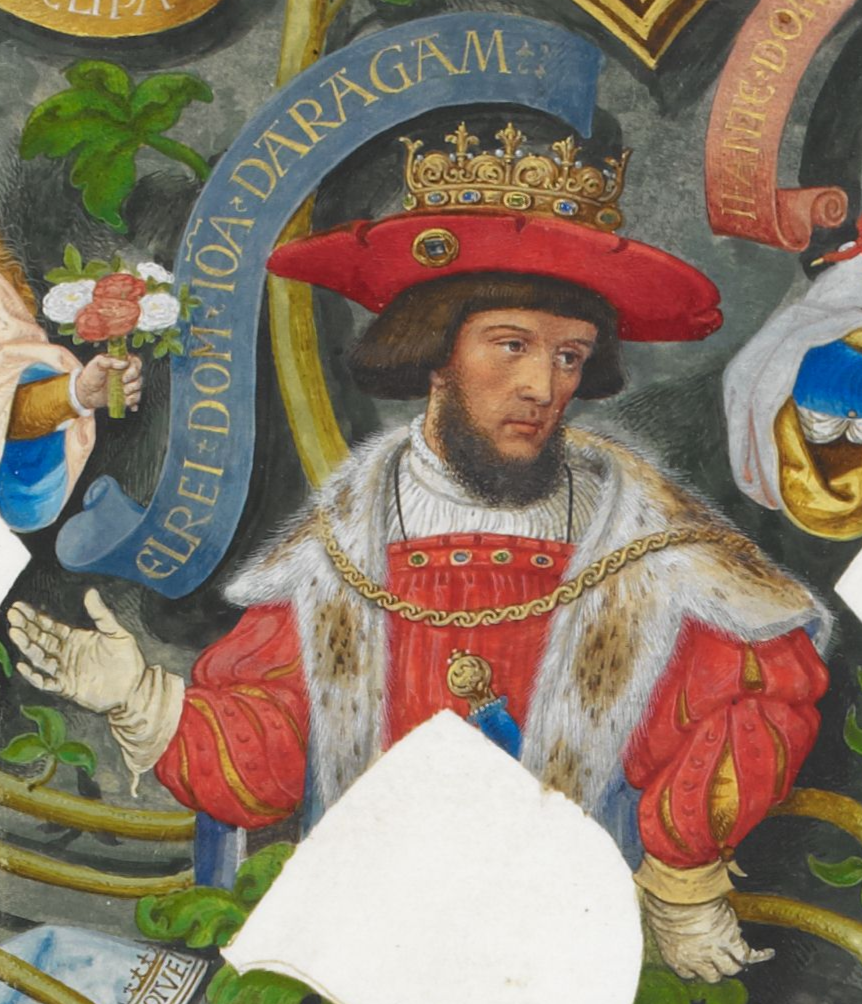 King John II of Aragon (1397-1479).